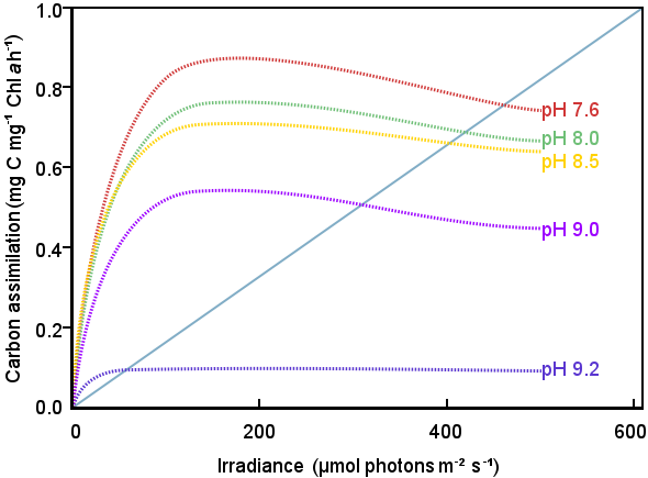 The relationship between irradiance and carbon assimilation for a monoculture of Woloszynskia halophila at different pH (Kristian Spilling (2007). "Dense sub-ice bloom of dinoflagellates in the Baltic Sea, potentially limited by high pH". Journal of Plankton Research (Oxford University Press) 29 (10): 895–901. ISSN 1464-3774)